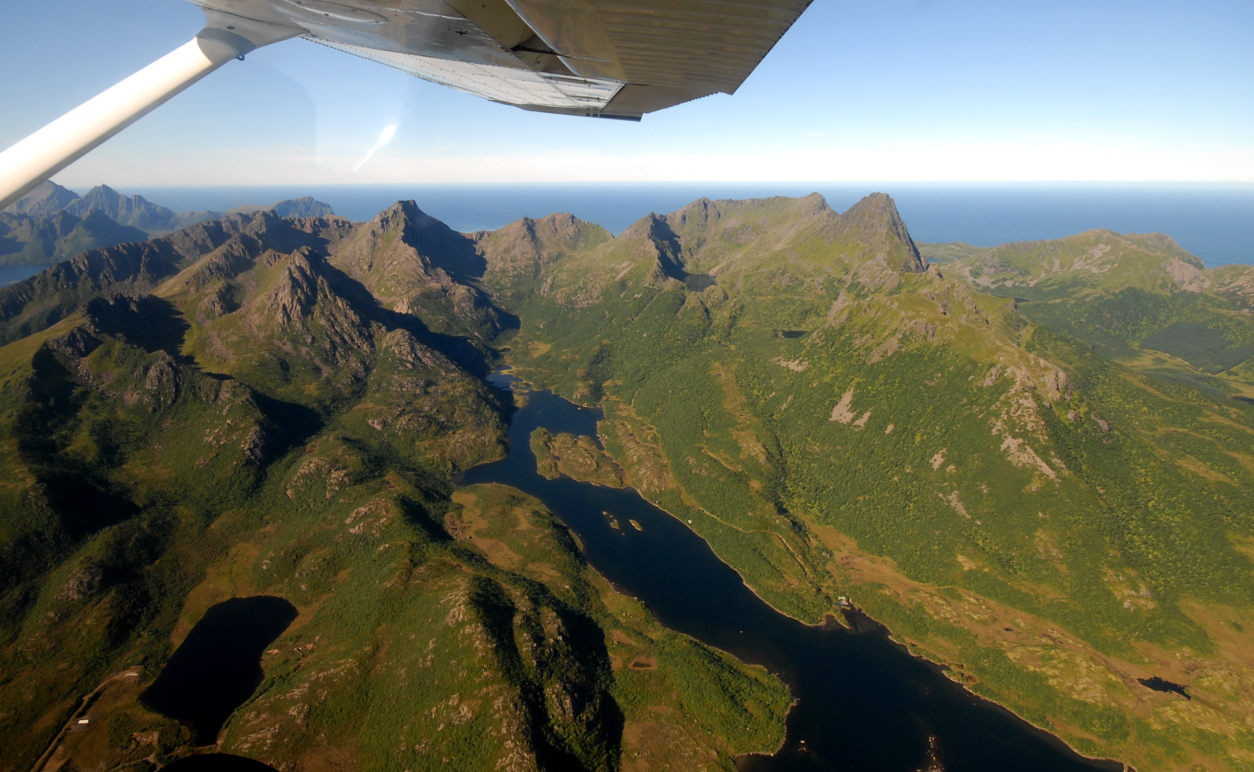 Strengelvågfjord, Øksnes municipality, Nordland, Norway